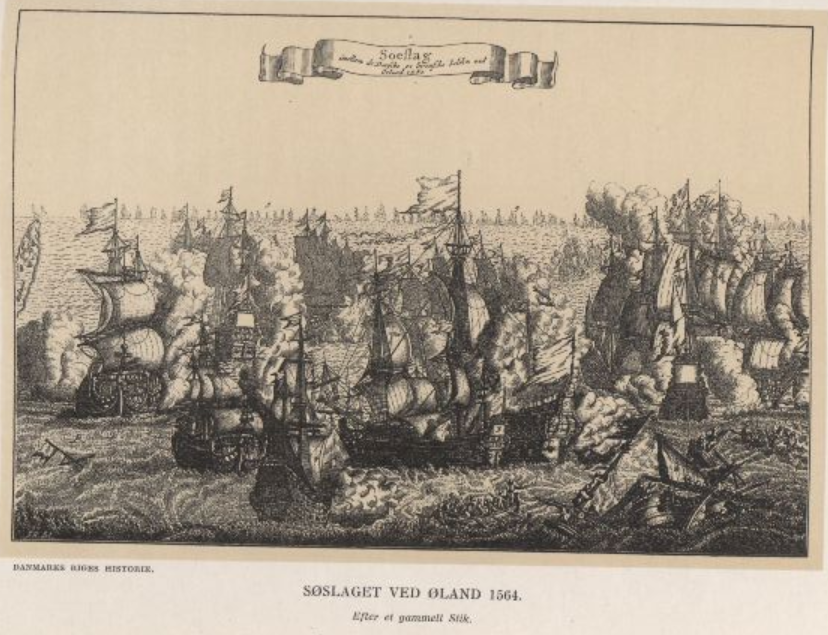 Action of 30 May 1564 i Northern Seven Years' War